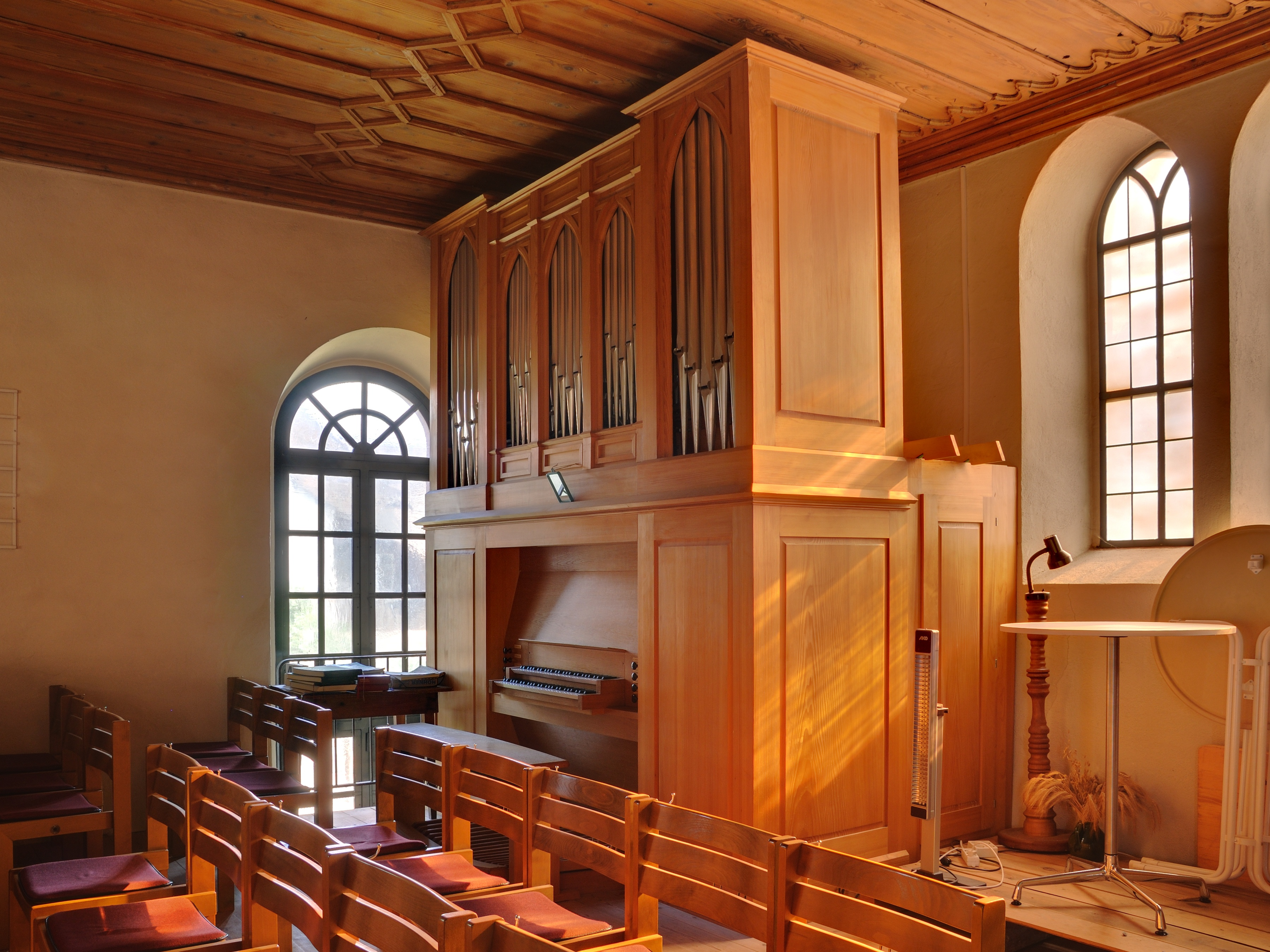 Egringen: Protestant Church